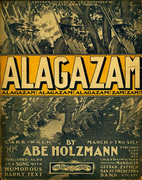 Alagazam, 1902